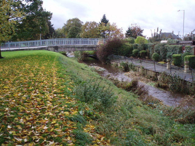 Grange Burn Grange Burn at the south entrance to Zetland Park, Grangemouth. This is the burn that gives Grangemouth its name, though the last few kilometres of the Grange Burn are now canalised so it enters the Forth at a different place from years ago. Grangemouth was originally called Sealock.